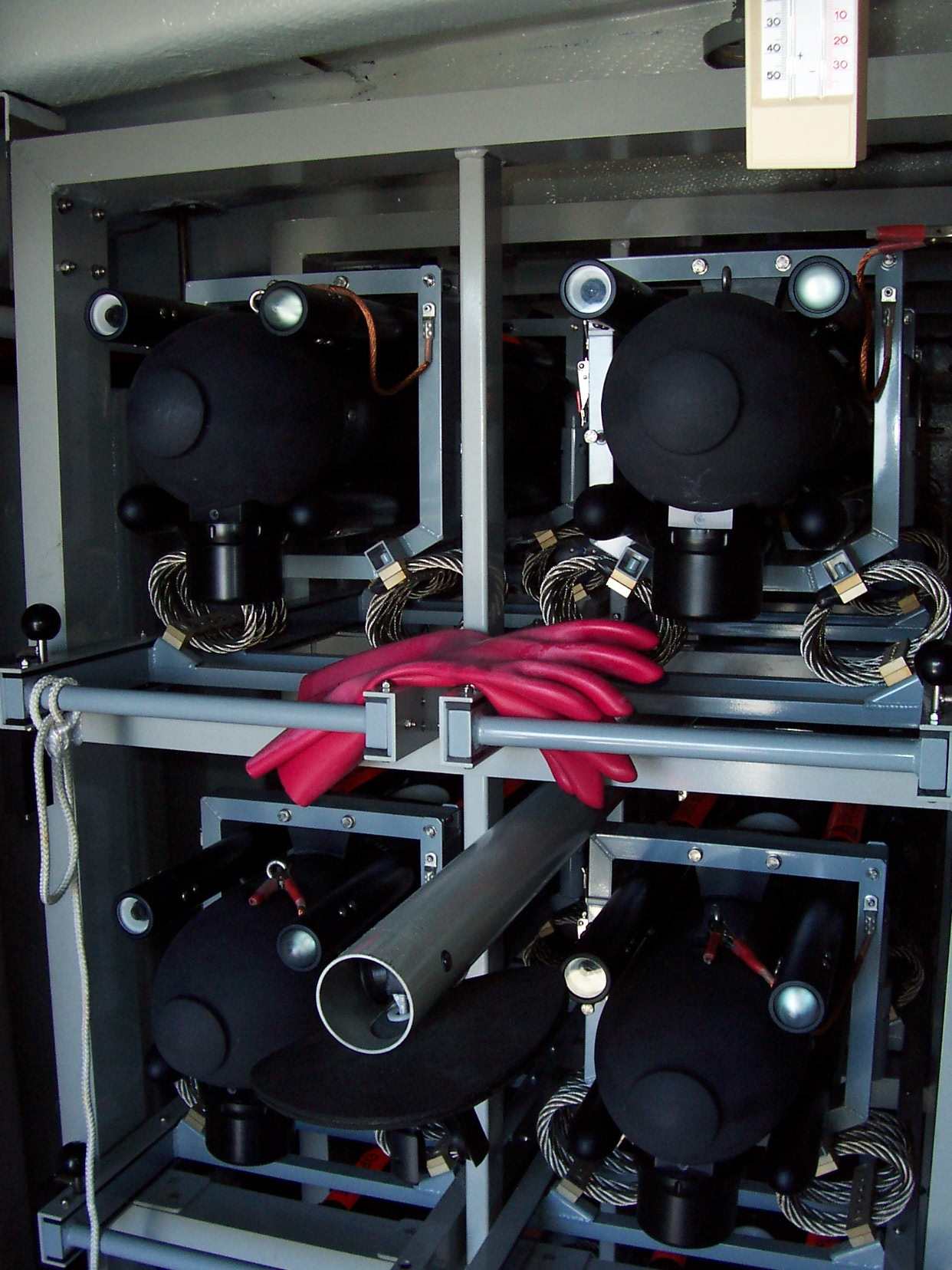 SeaFox C is a device used in the anti mine warfare.